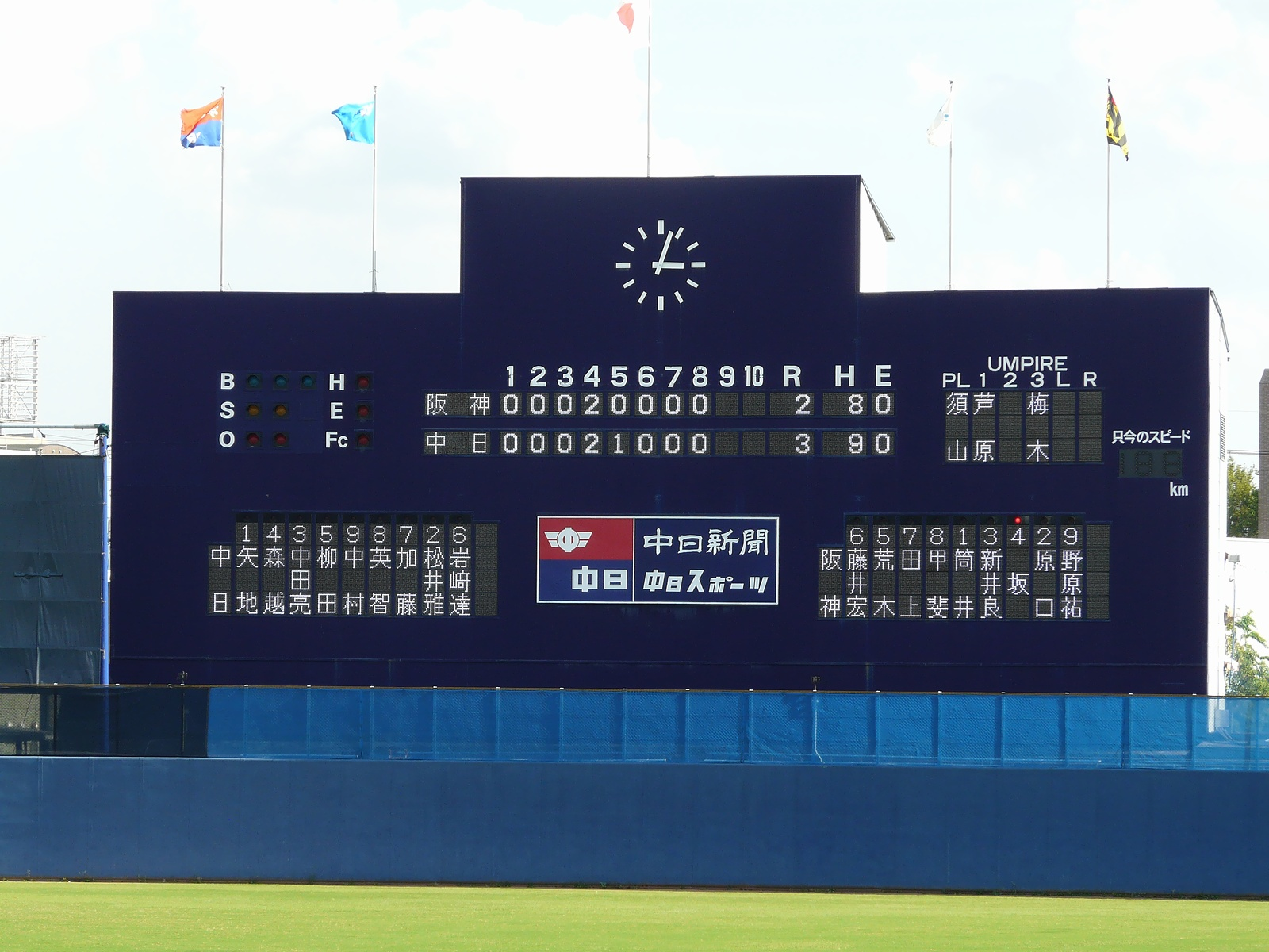 Nagoya_Baseball_Stadium_06